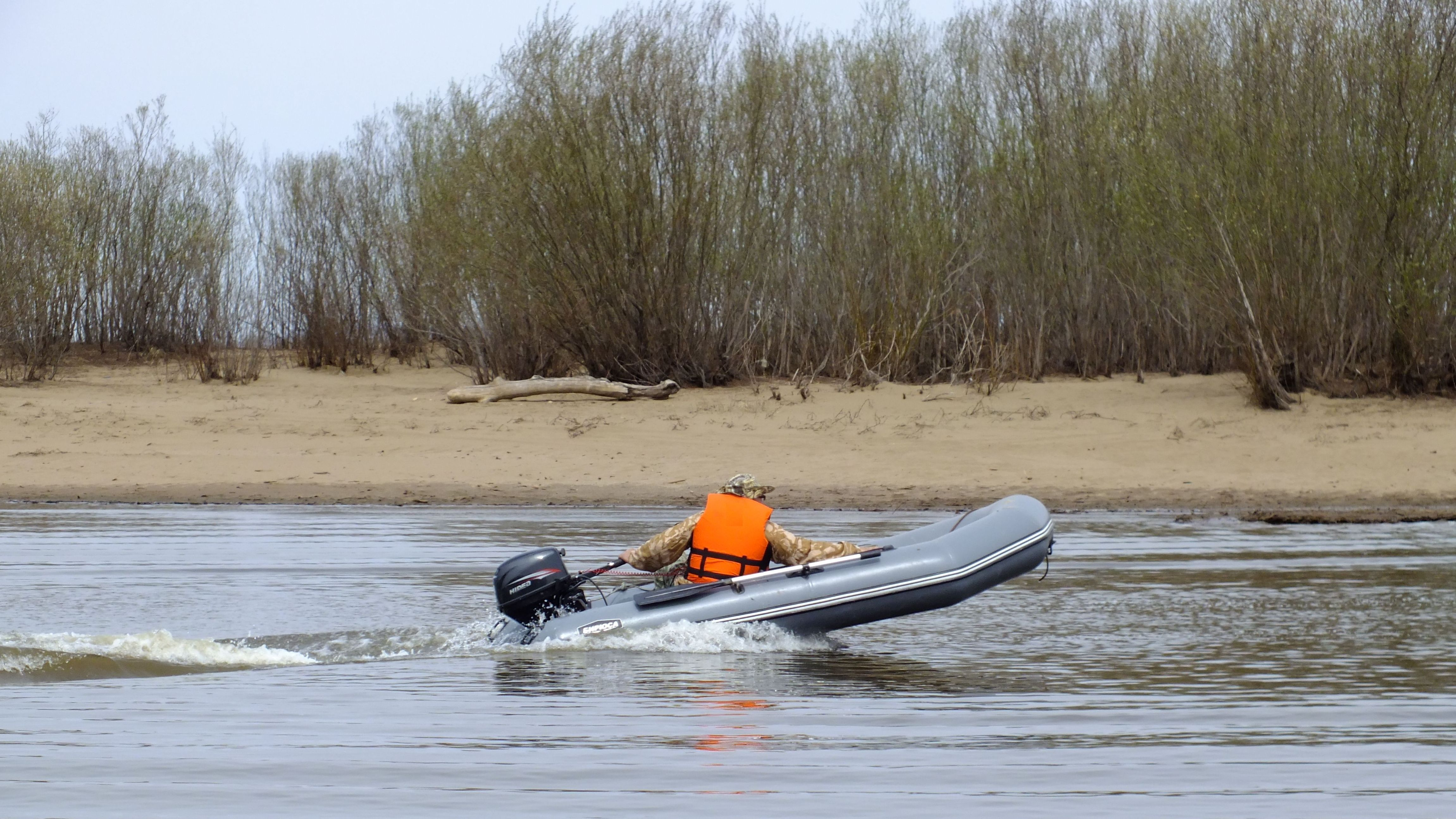 Motorboats in Russia